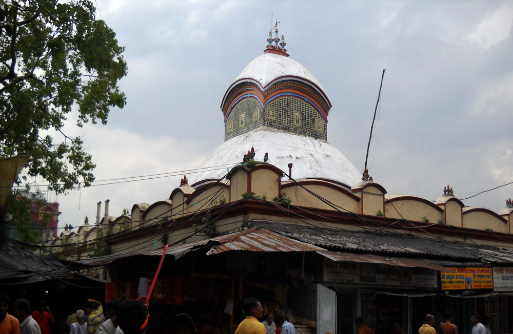 View of Kalighat Kali temple